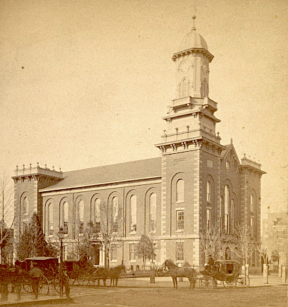 Old Lycoming County Courthouse, Williamsport, Pennsylvania, 1860, from the digital images collection of the Library of Congress